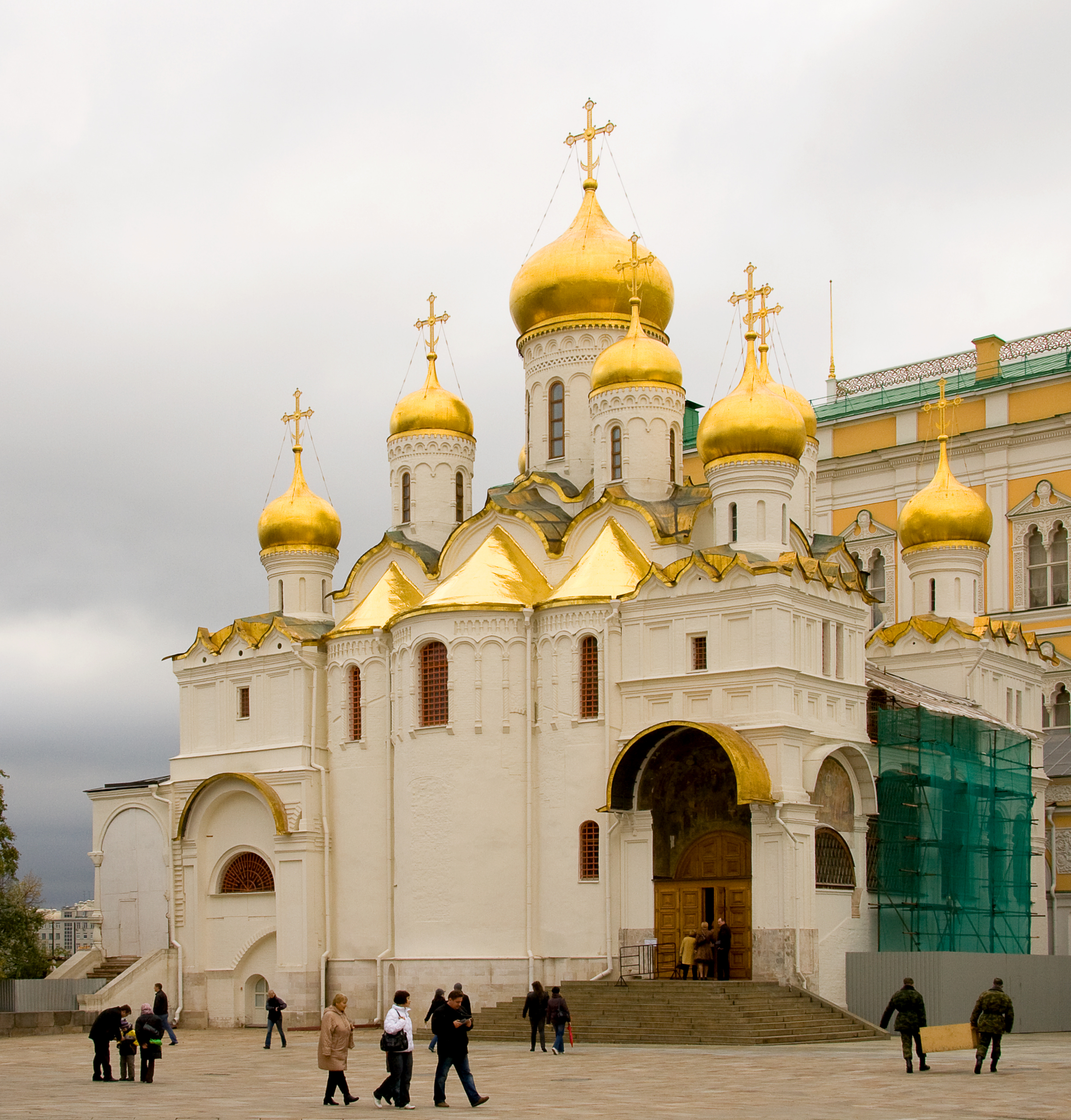 The Annunciation Cathedral in the Kremlin, Moscow, Russia (1484 - 89). It was built by masters from Pskov as a home church of the Great Moscow Princes and later of the Russian Tsars.